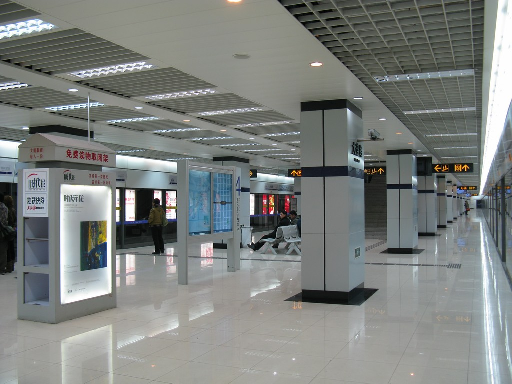 Line 4 Platform of Dalian Road Station